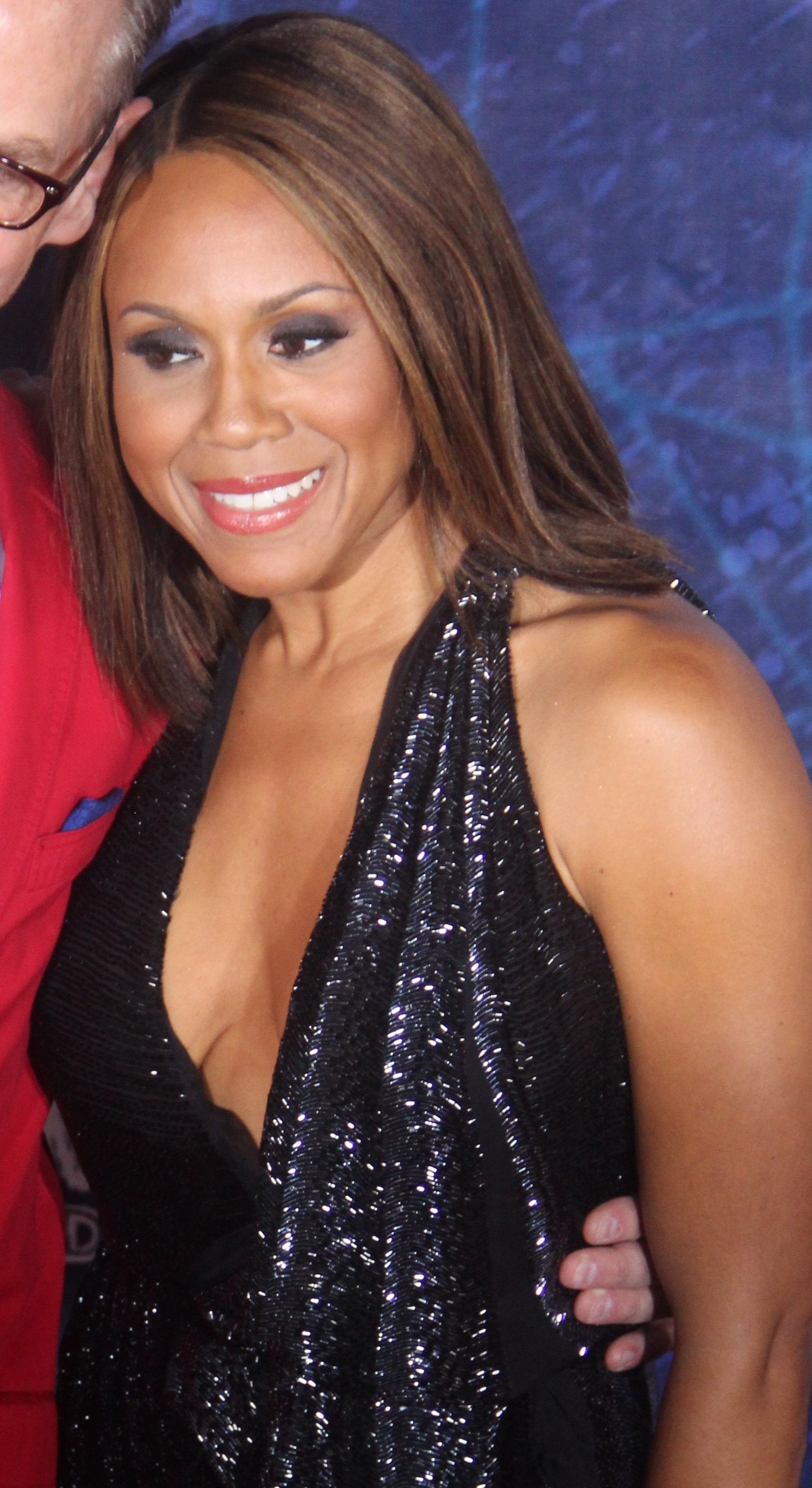 Deborah Cox at the Spiderman: Turn Off the Dark opening at Foxwoods Theatre, New York City in June 2011